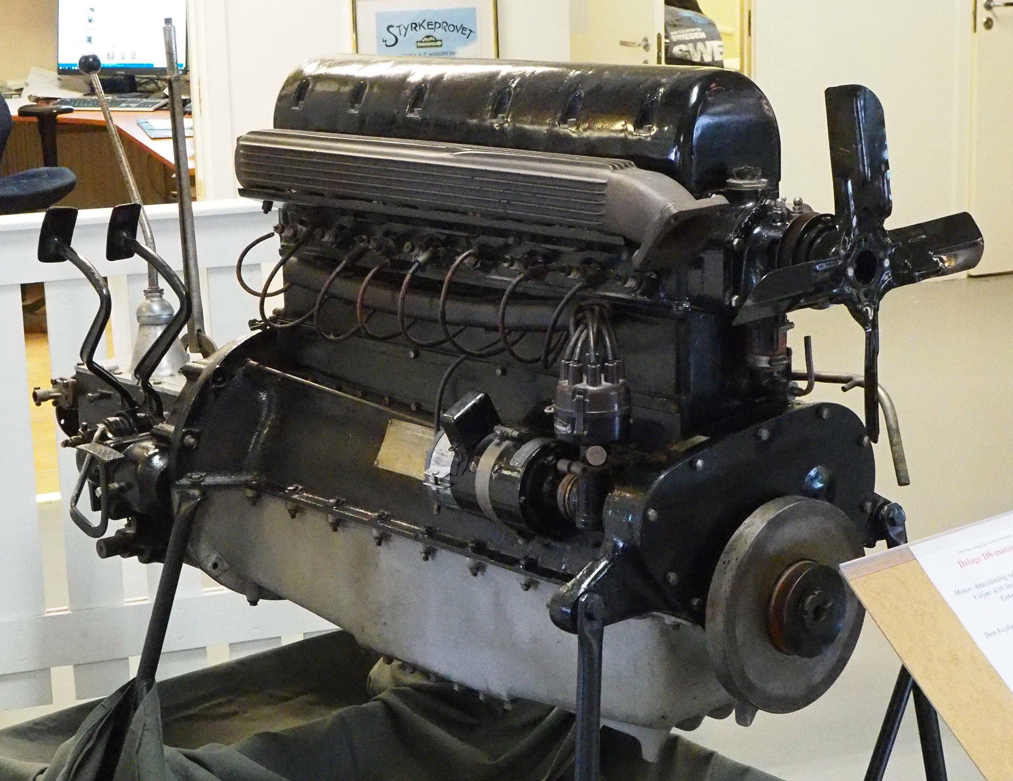 Delage Type D8 four litre straight eight ohv engine.